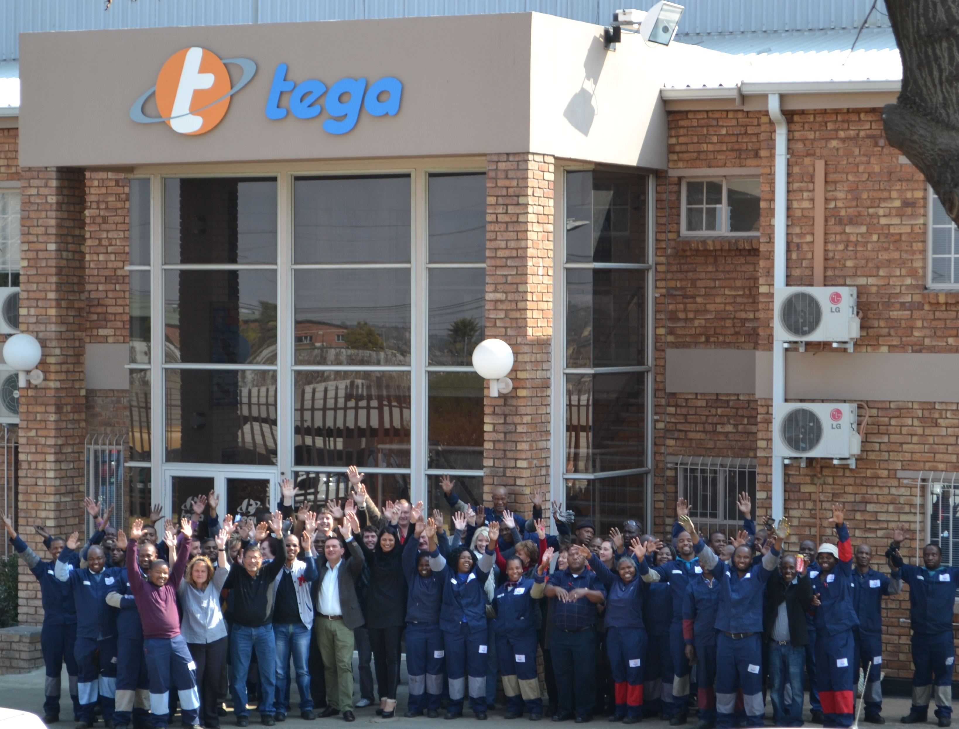 Tega South Africa plant